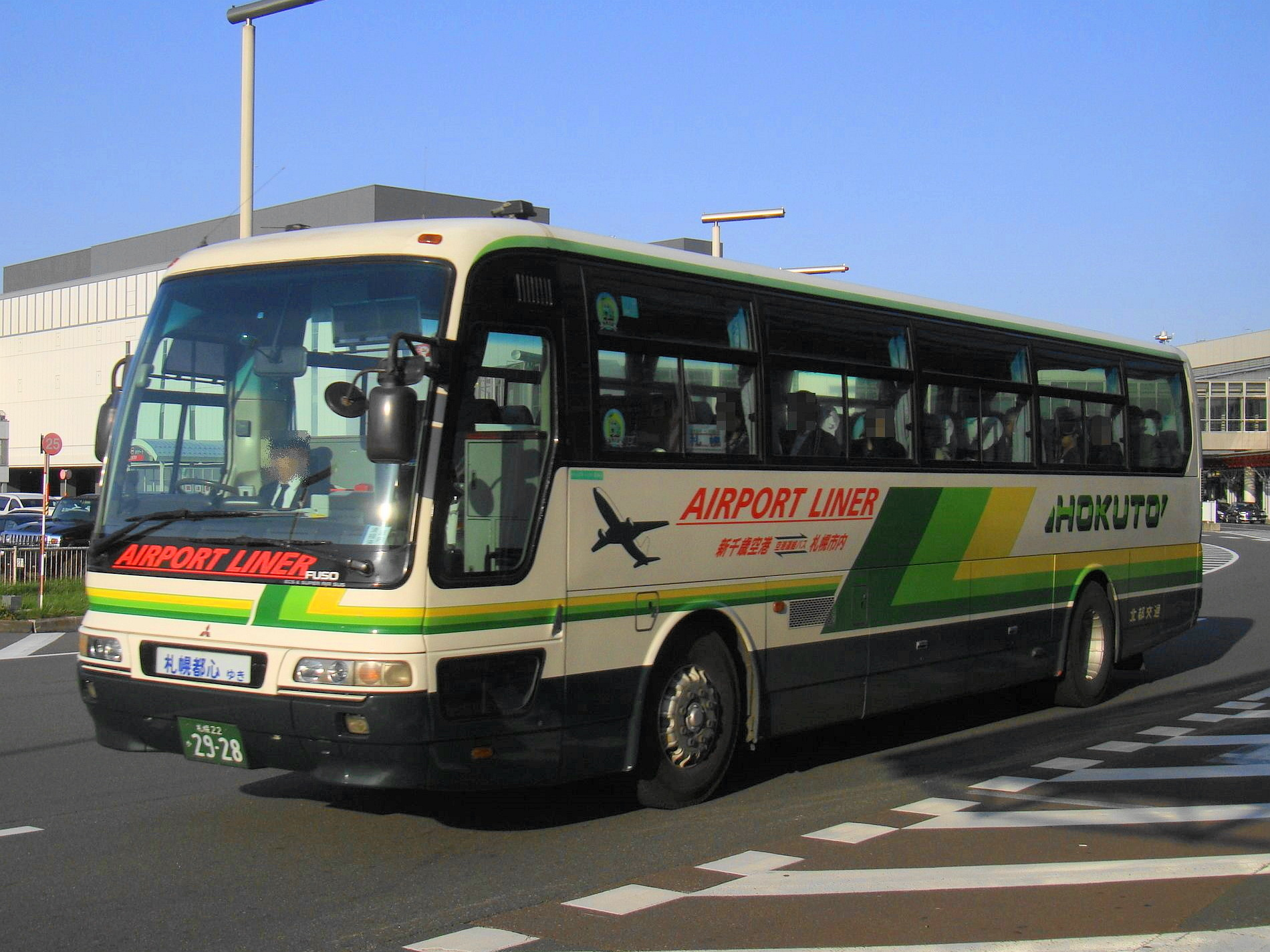 Sapporo to New Chitose Airport